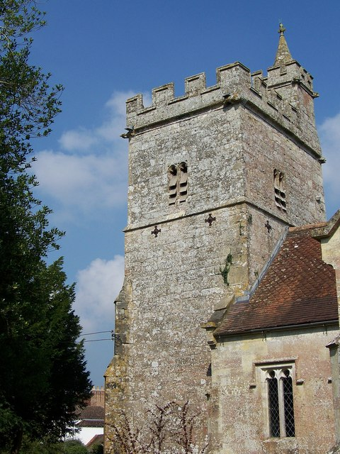 Tower, All Saints Church, Norton Bavant At the north-east angle of the tower is a stair turret projecting to the north. It is carried well above the top stage of the tower, and has its own string course and battlements, crowned with a small stone spire.